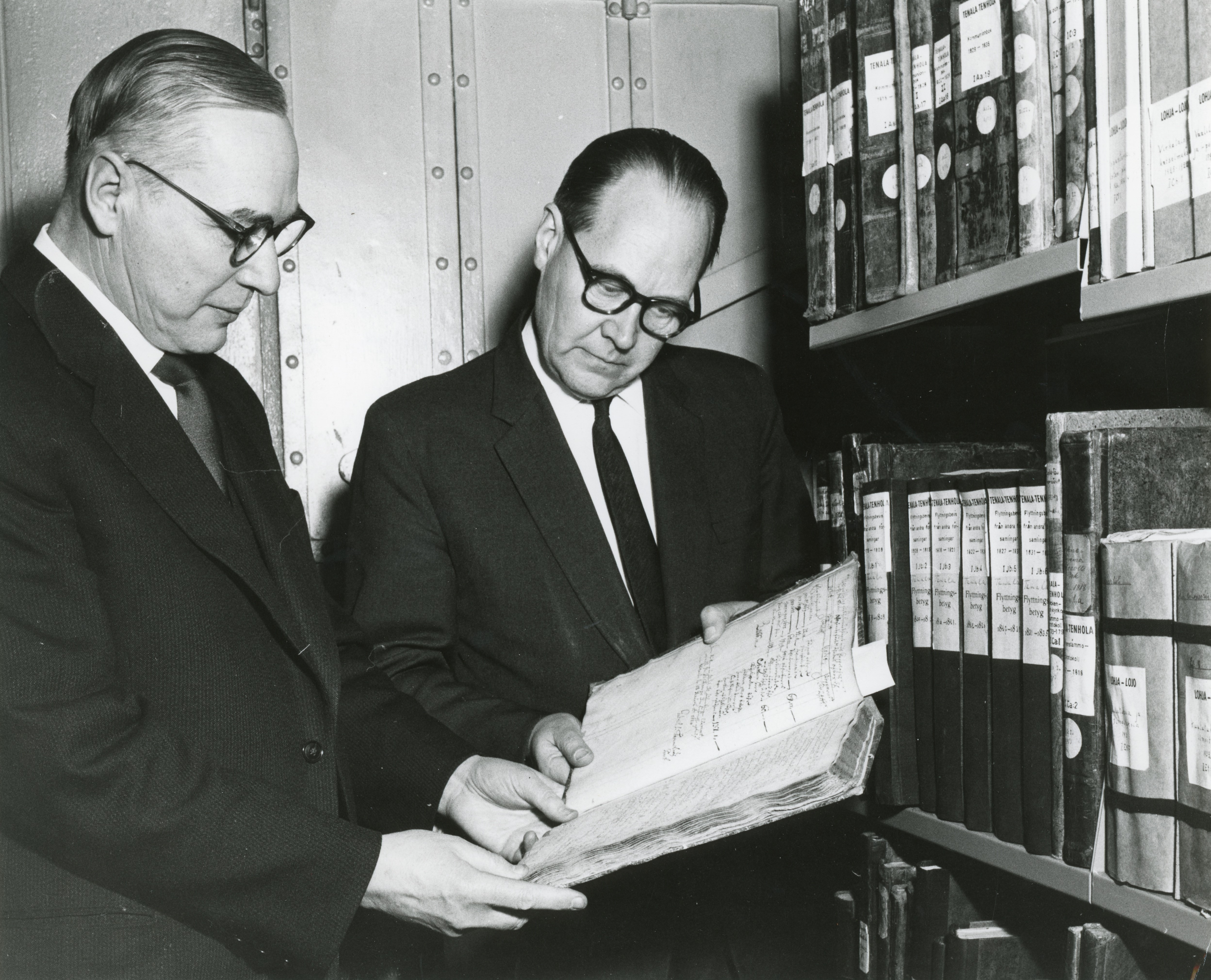 Yrjö Nurmio and Aulis Oja examining the account book of Vihti from 1660-1772.